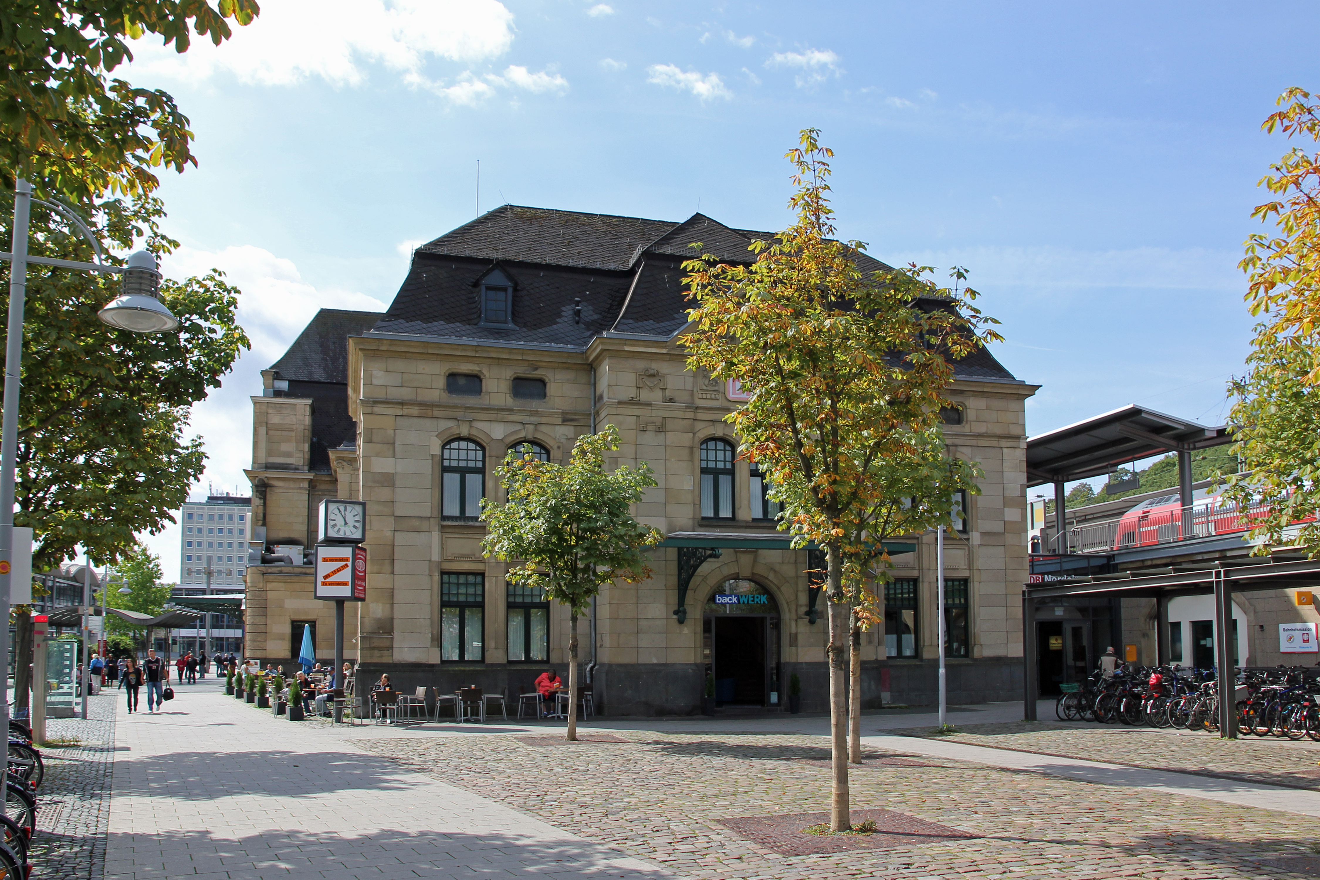 Main station in Koblenz